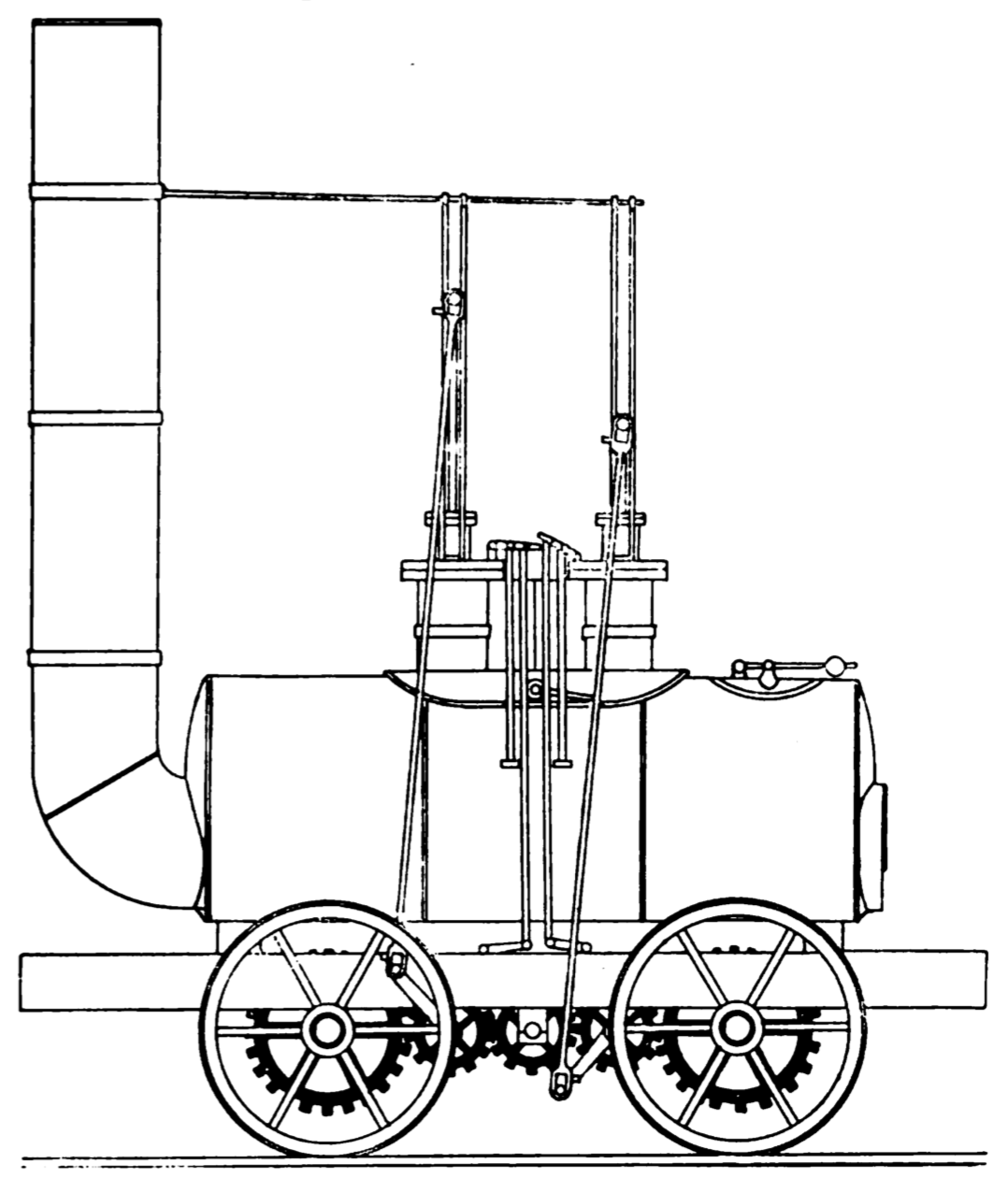 George Stephenson's 1814 locomotive "Blucher"